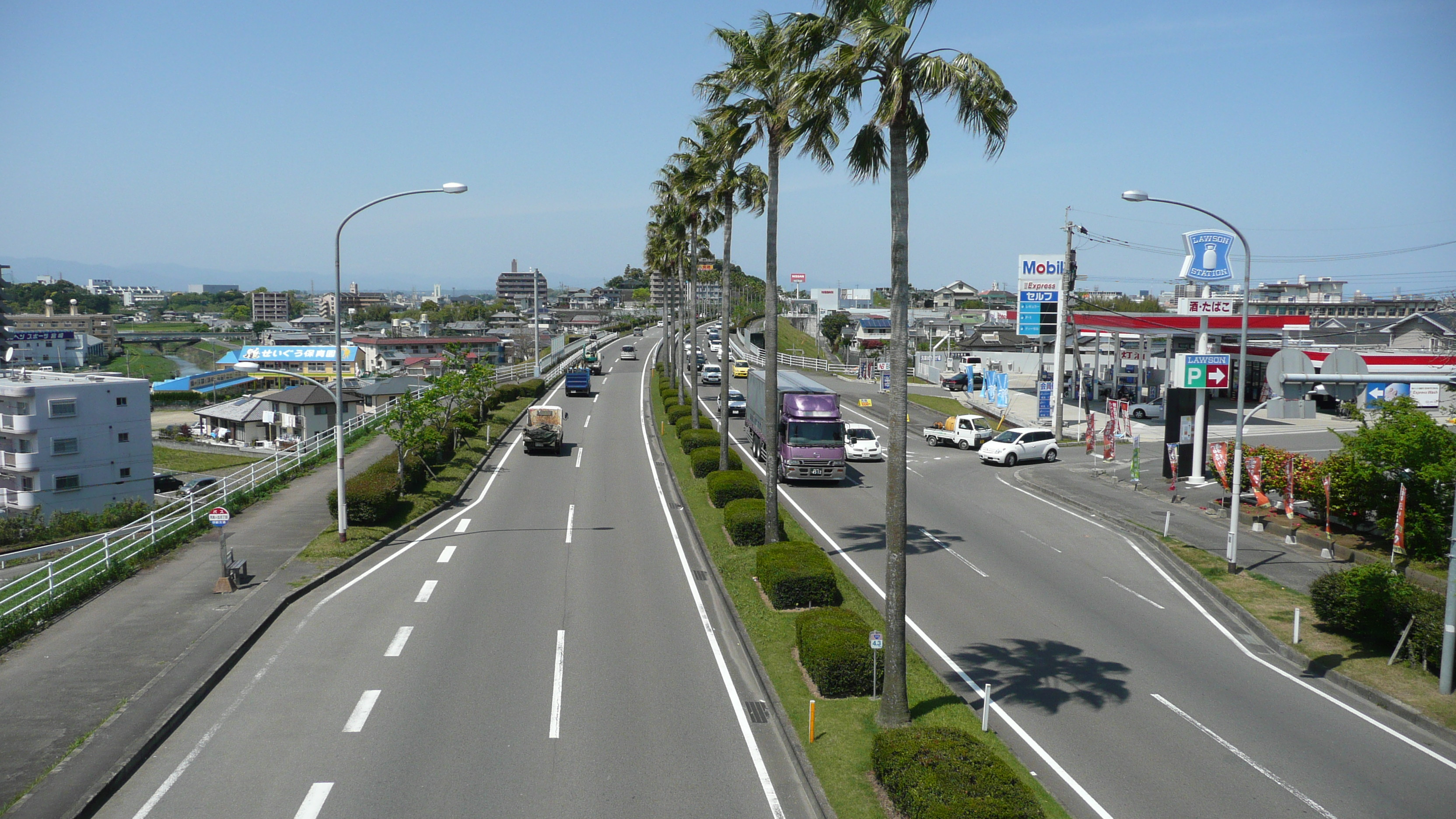 National Route 220 Miyazakiminami bypass (Tsukimigaoka, Miyazaki, Japan)